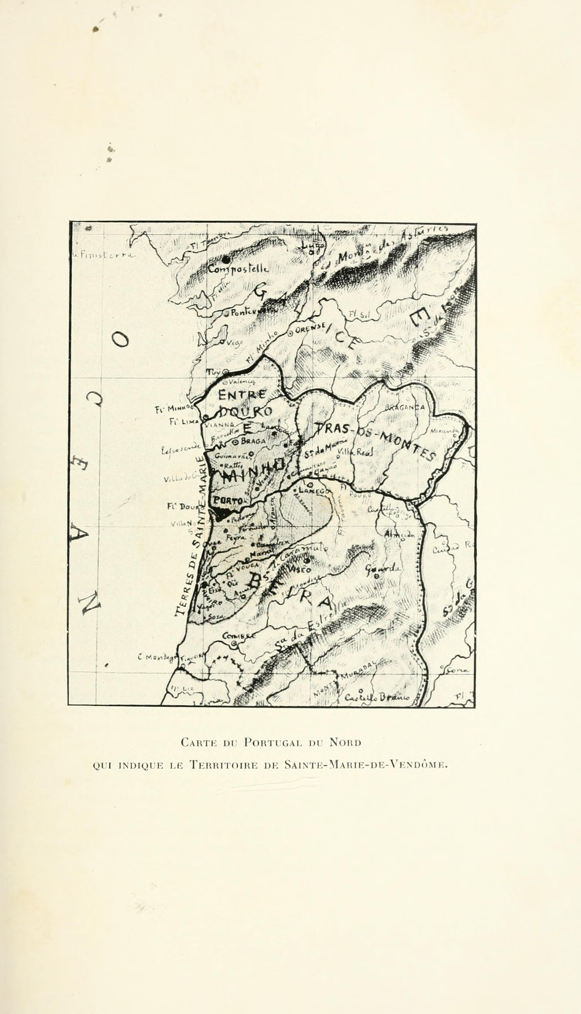 Map of Northern Portugal which indicates the territory of Santa Maria de Vendôme/Vandoma